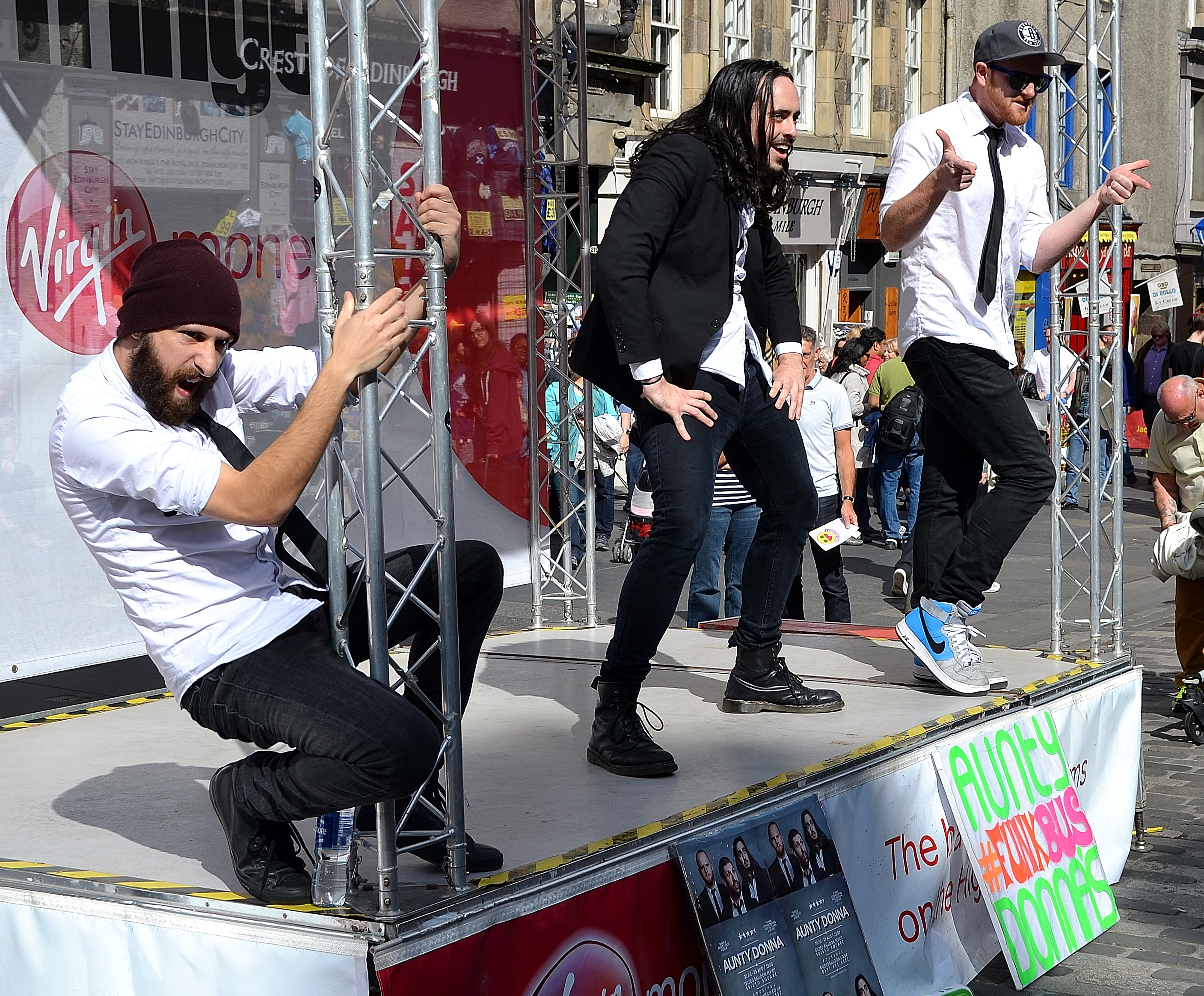 Australian sketch comedy troupe, Aunty Donna (Mark Samual Bonanno, Zachary Ruane, Broden Kelly), performing at Edinburgh Festival Fringe 2014.